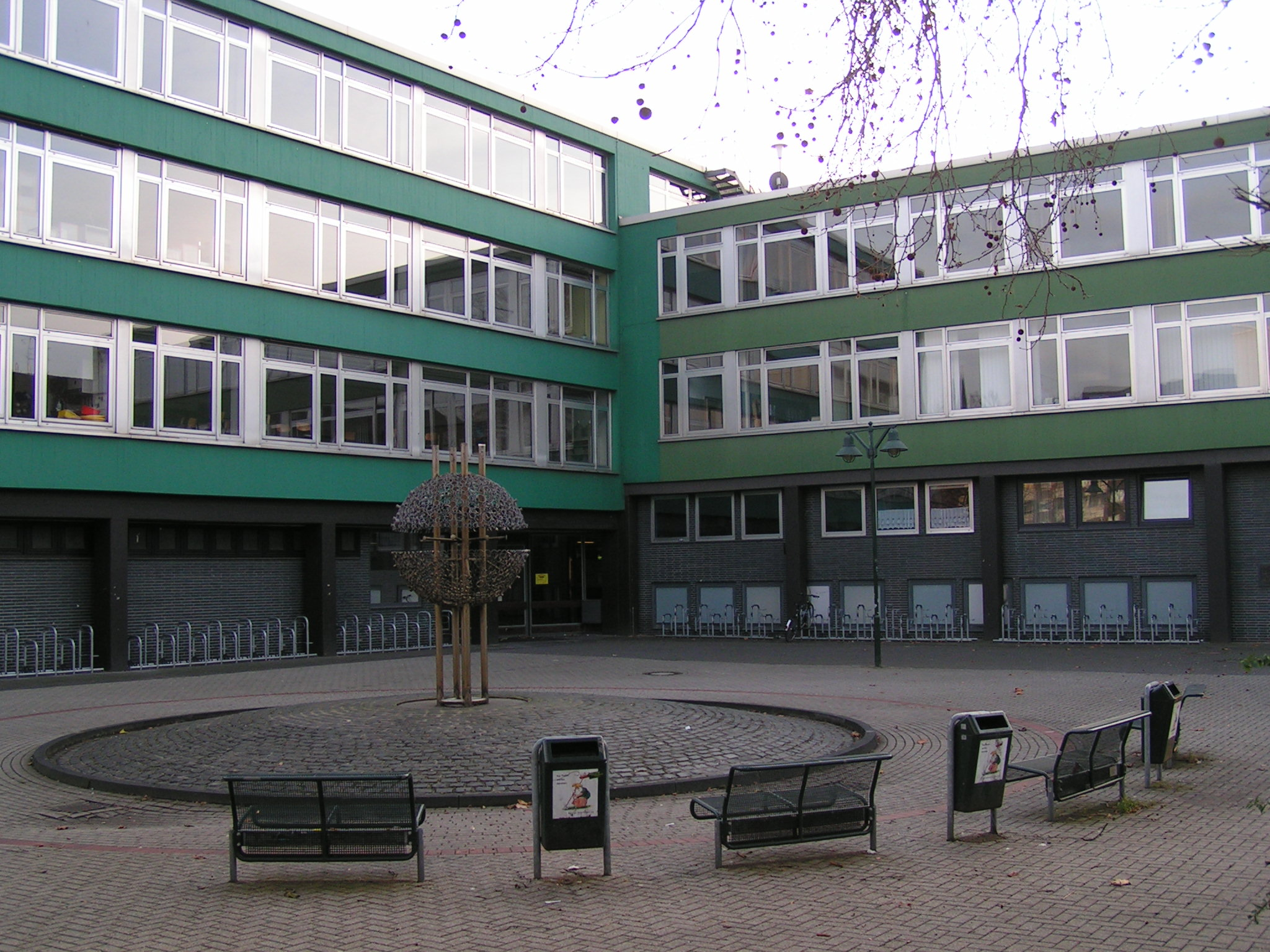 Main Entrance of Landrat-Lucas-Gymnasium (School in Leverkusen, Germany)